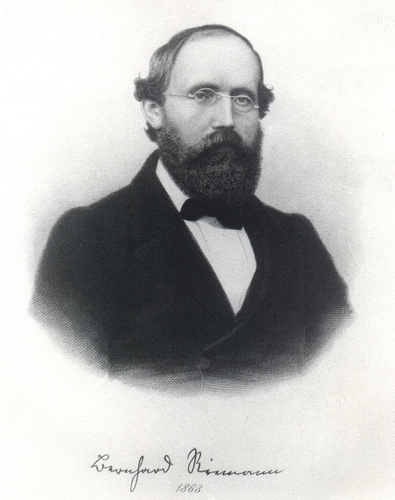 Bernhard Riemann (1826-1866)